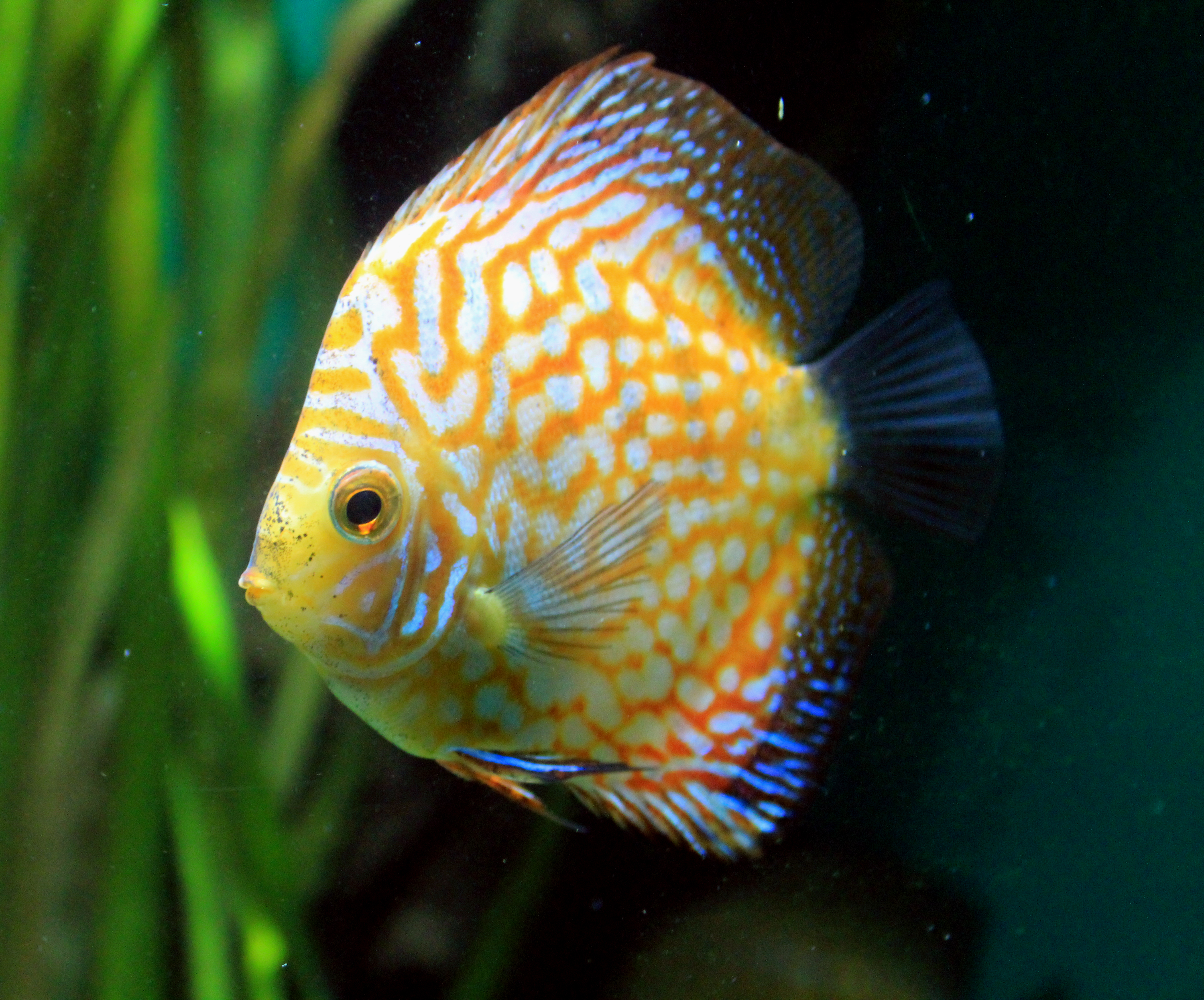 Fish Symphysodon haraldi, (Symphysodon haraldi) in Prague sea aquarium “Sea world”, Czech Republic Česky: Ryba terčovec hnědý, Symphysodon haraldi v pražském mořském akváriu Mořský svět v Holešovicích